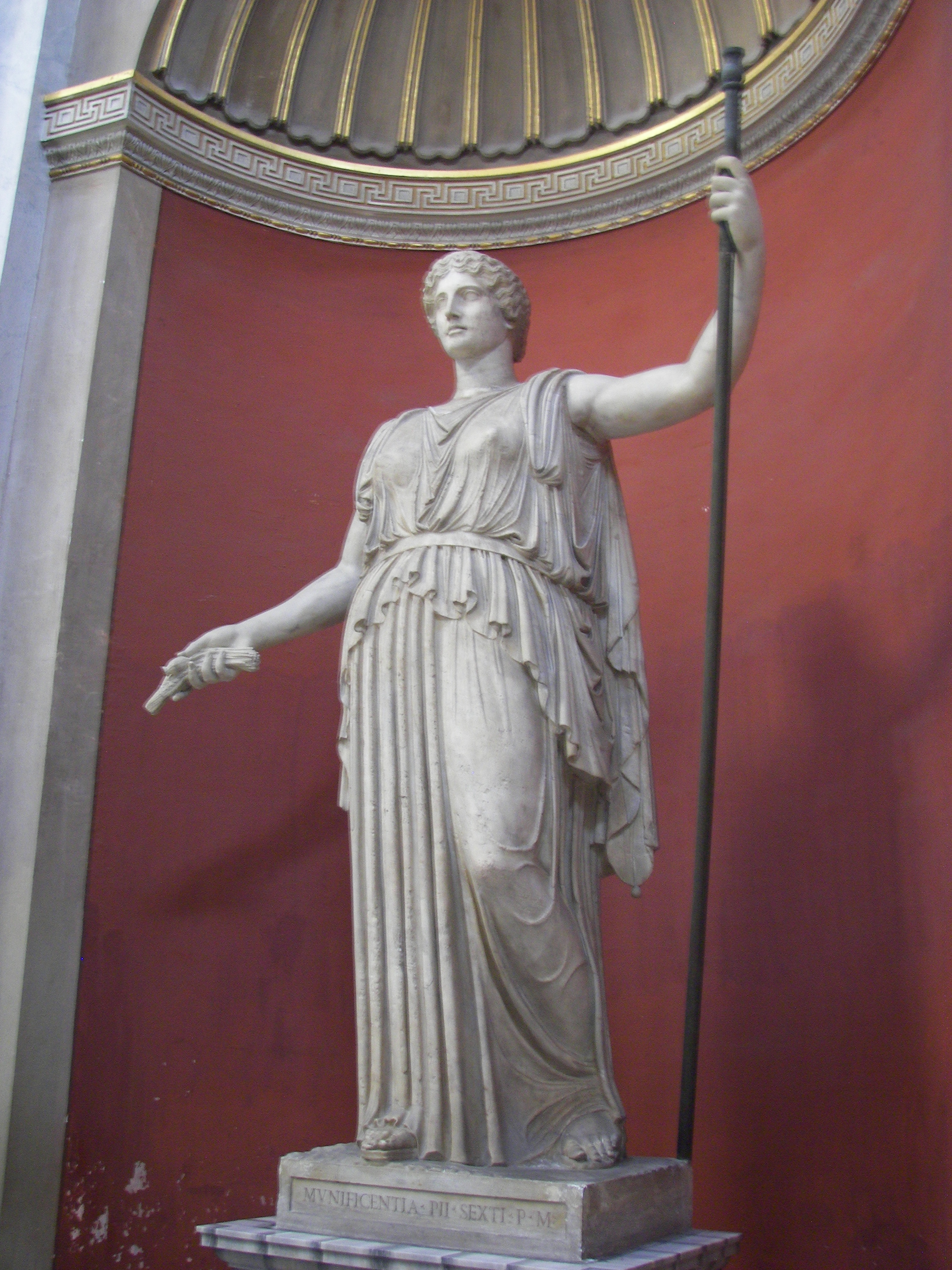 Statue of Demeter/Ceres in the round room area of Museo Pio-Clementino.